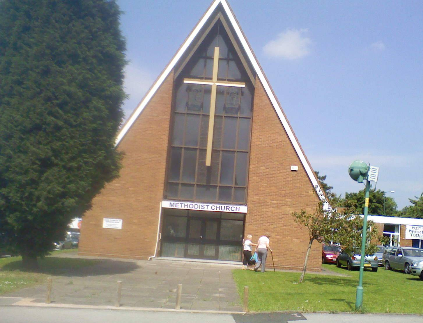 Photo of the Methodist Church in Brownhills, taken by myself this very morning :-)